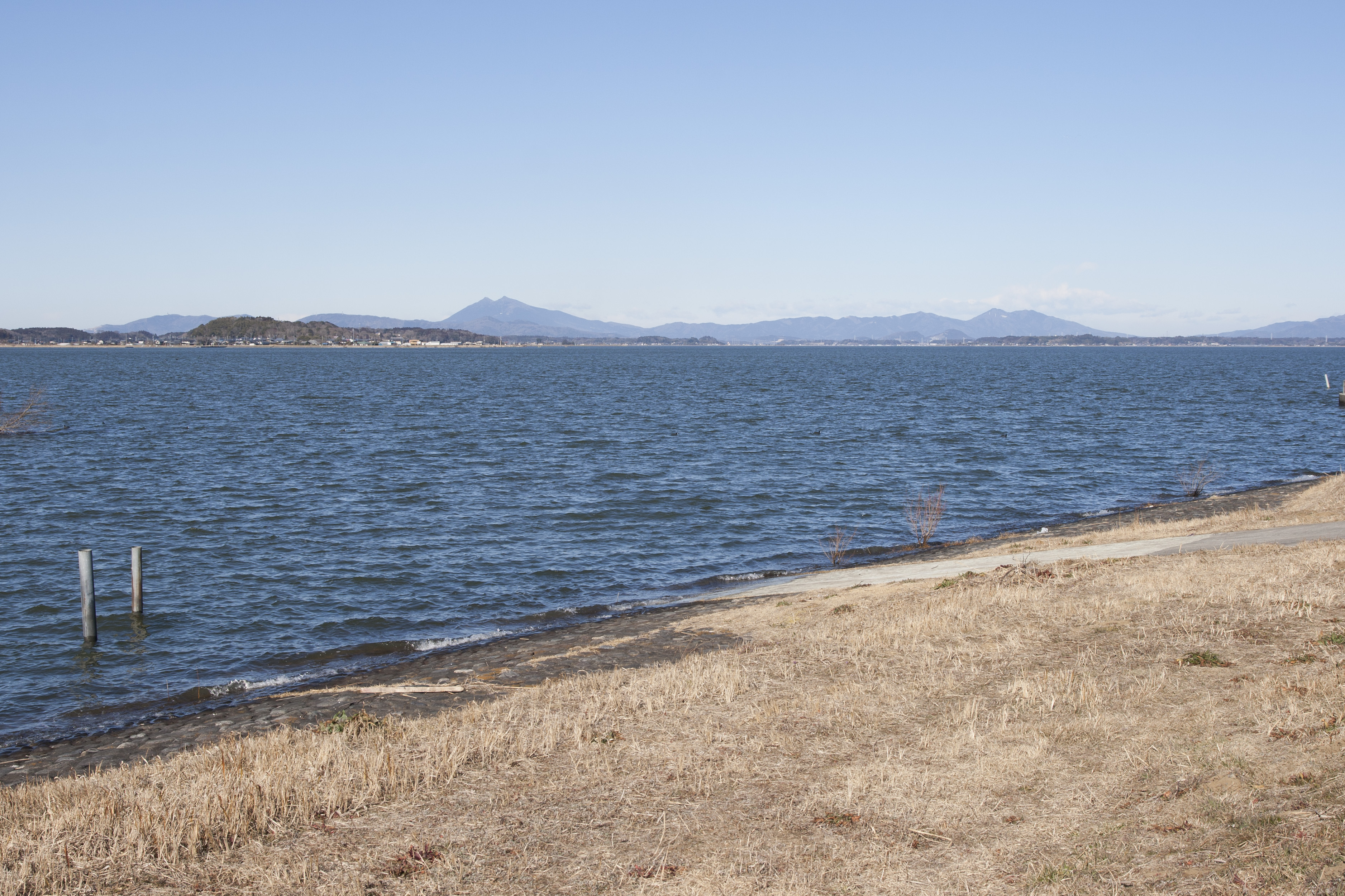 Lake Kasumigaura, Namegata City, Ibaraki Prefecture, Japan